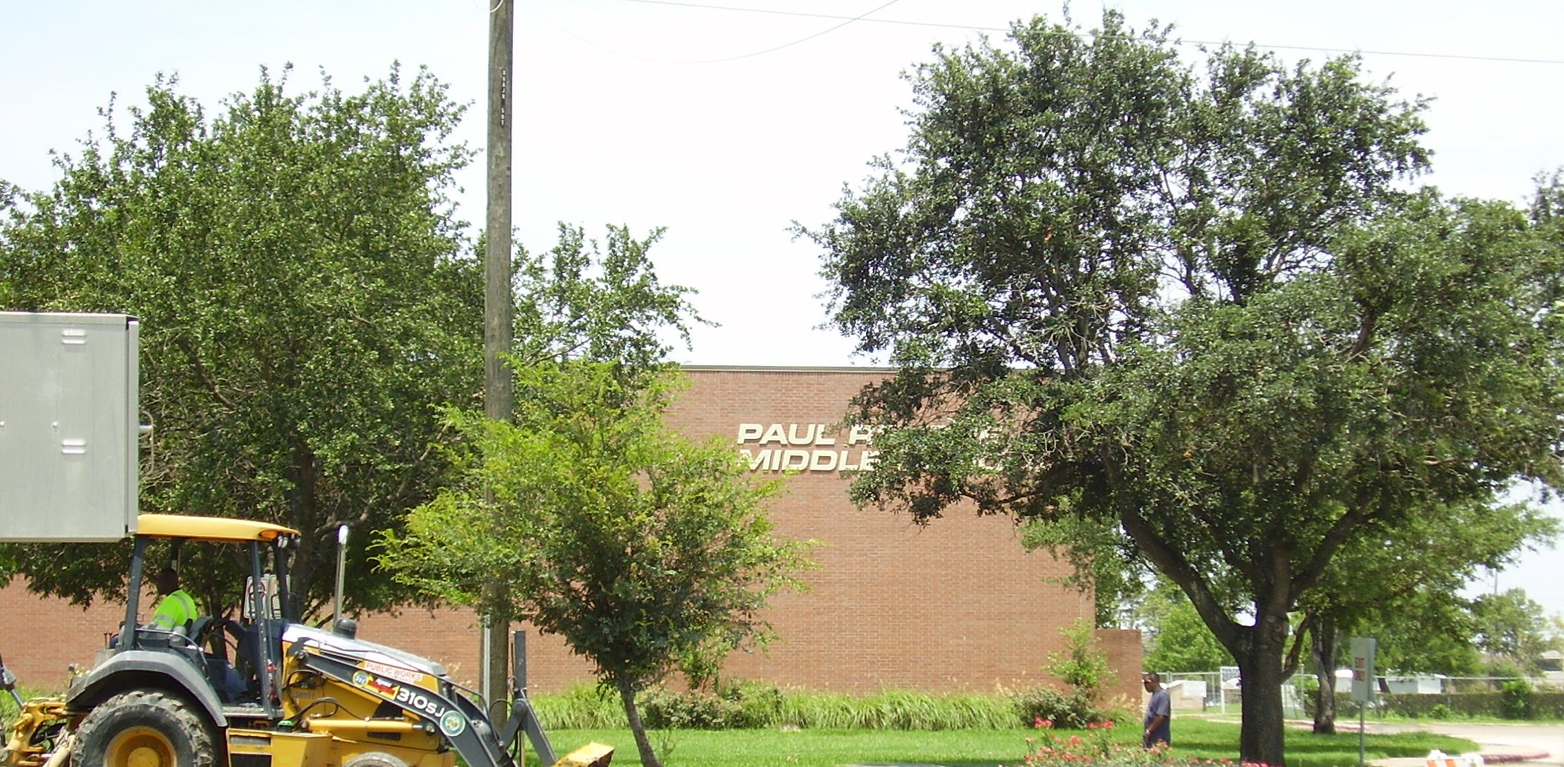 Paul Revere Middle School